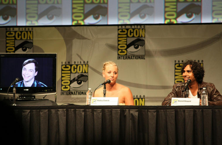 Kunal Nayyar, Kaley Cuoco and Jim Parsons (on screen) at Comic-Con